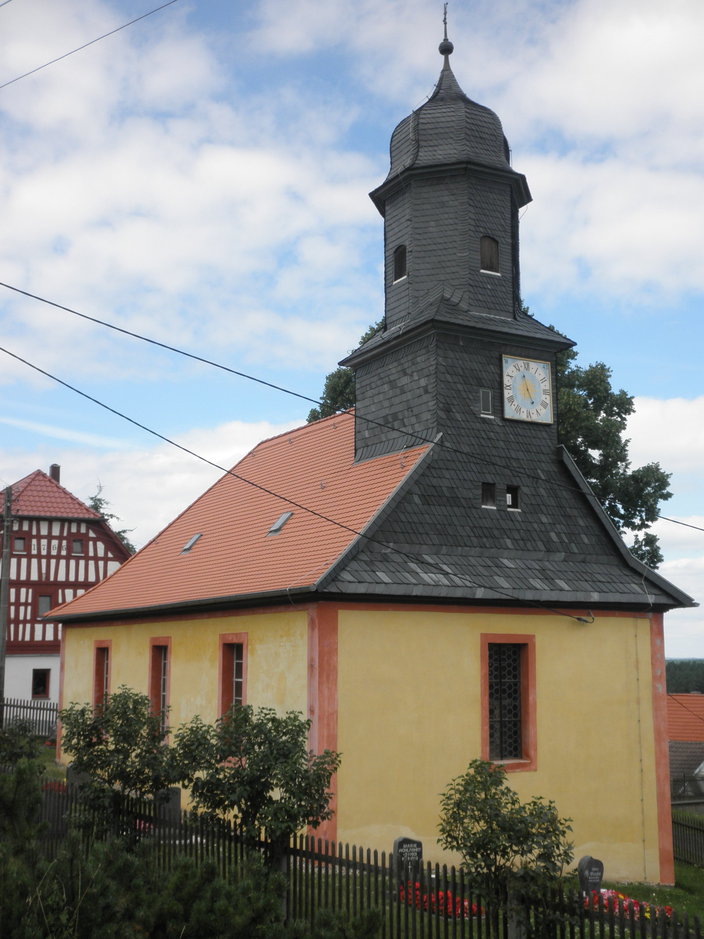 Church in Strößwitz in Thuringia